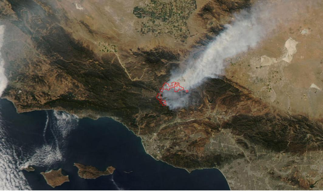 Day Fire as visible to the human eye from space